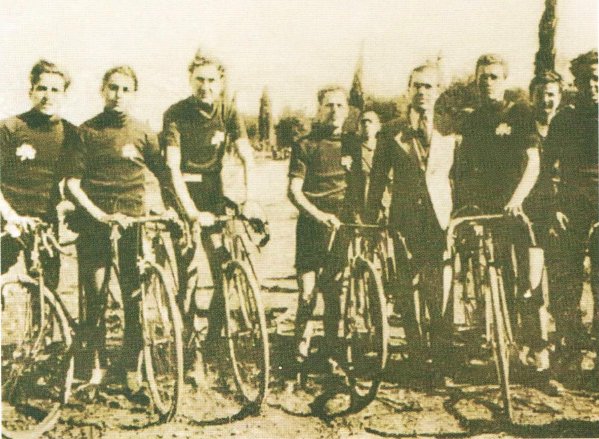 Pre-WW II Panathinaikos AO cycling team